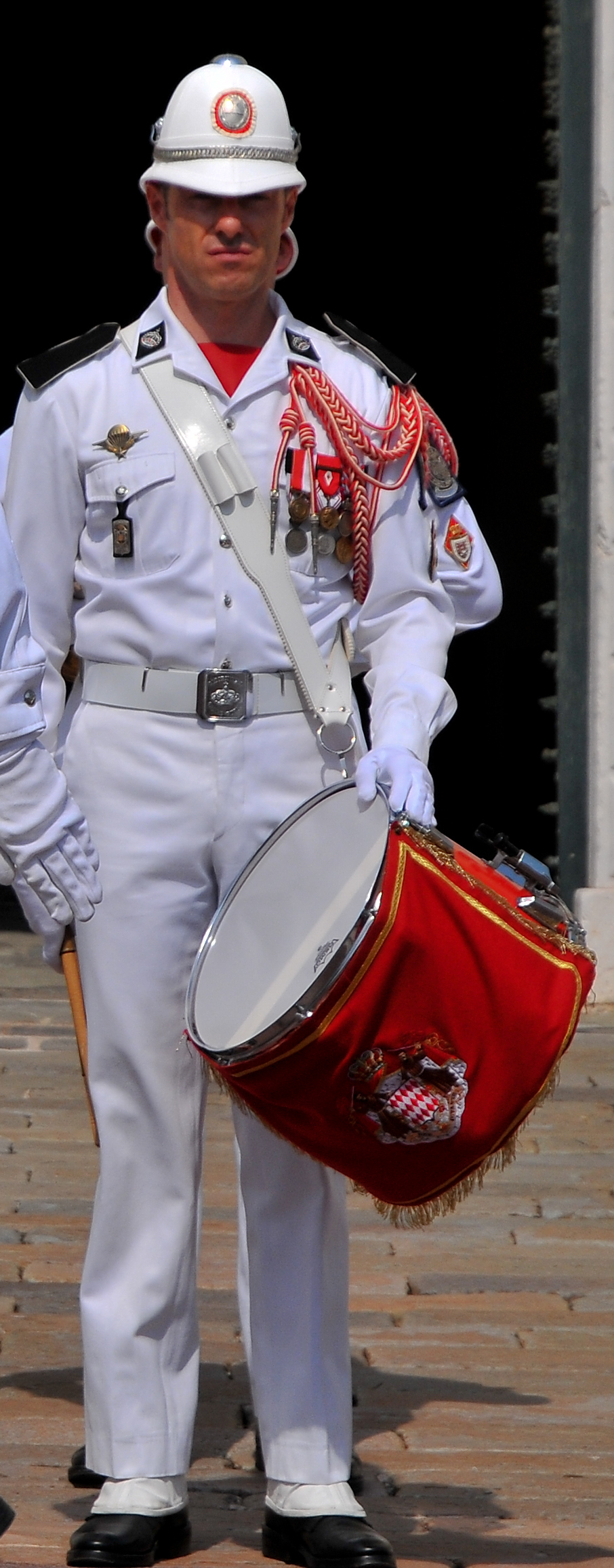 Changing of the Guard at the Prince's Palace